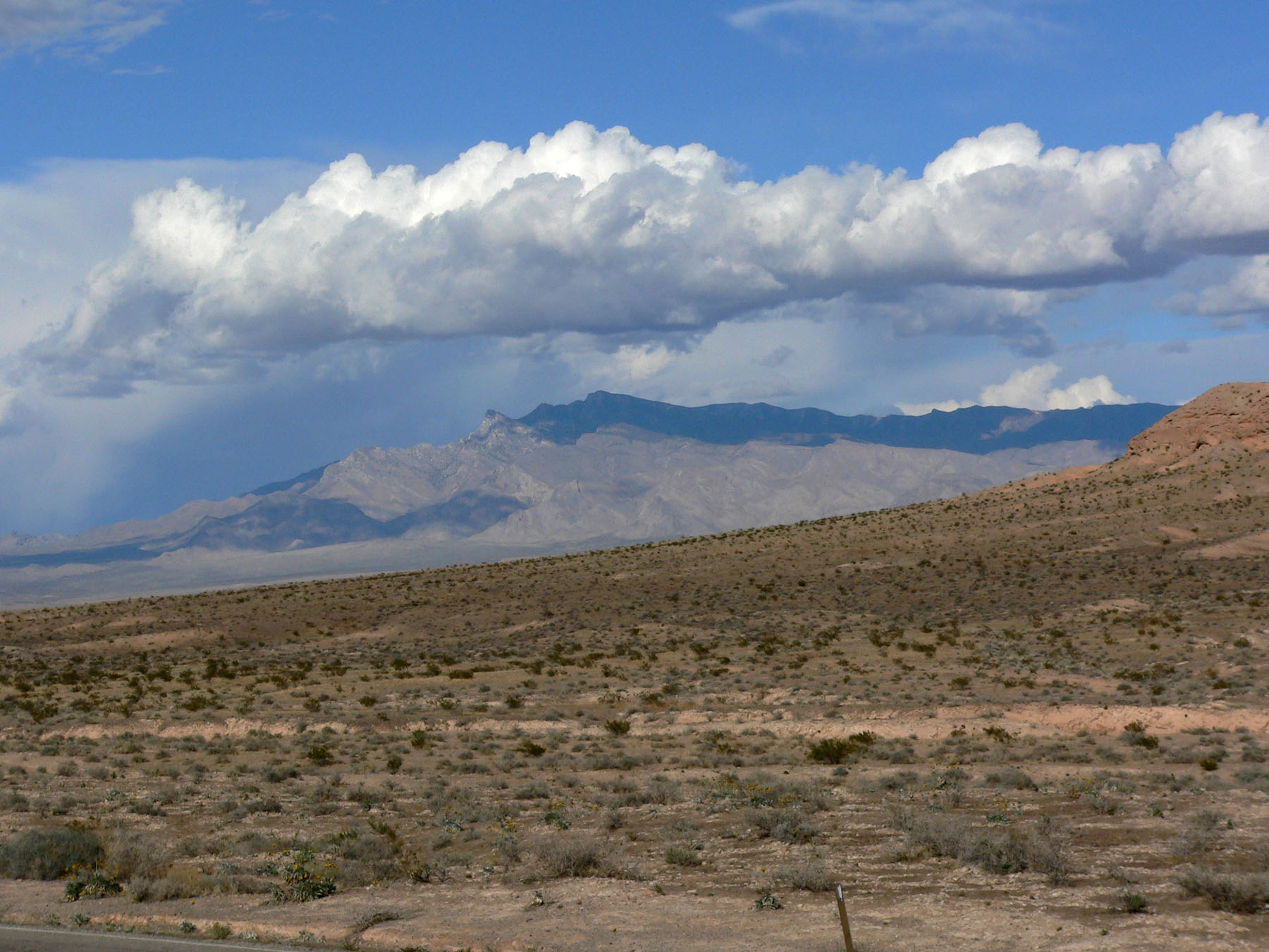 Virgin Mountains — seen from Northshore Drive in the Lake Mead National Recreation Area. In the Mojave Desert, Clark County, southern Nevada.